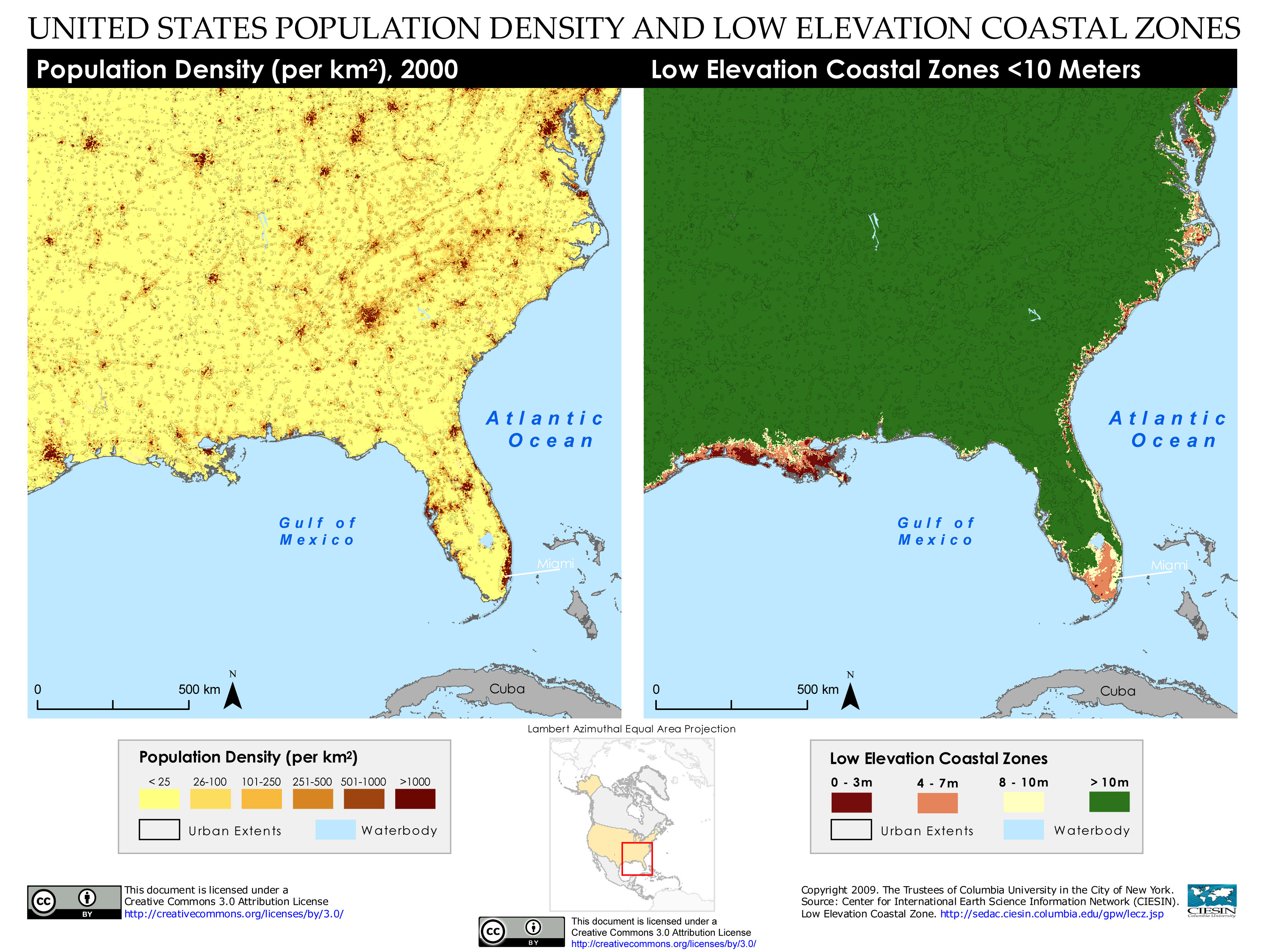 Southeastern United States of America: Population Density and Low Elevation Coastal Zones